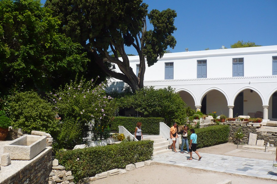 Panagia Ekatontapyliani